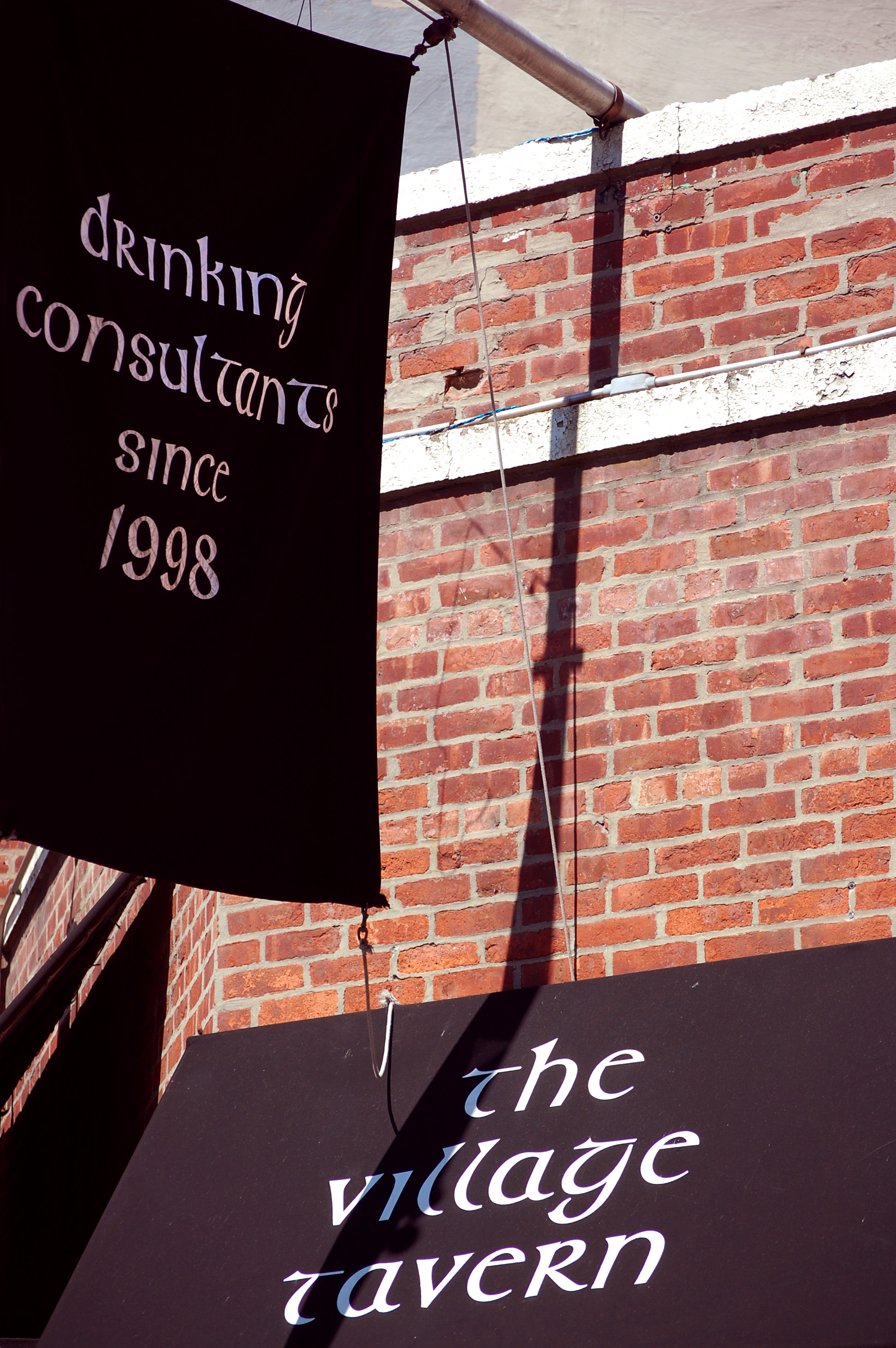 Drinking Consultants